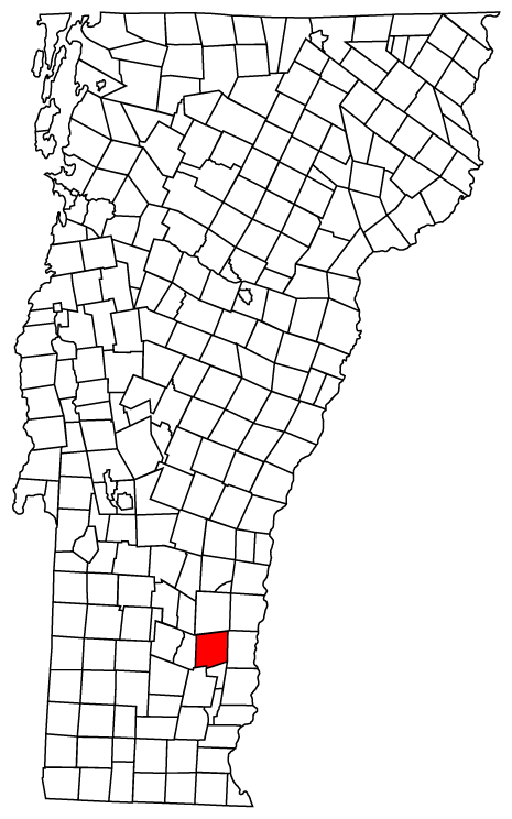 Description: Map of Vermont towns with Grafton highlighted Source: Map created by Jared C. Benedict on 26 March 2004. Copyright: © Jared C. Benedict.